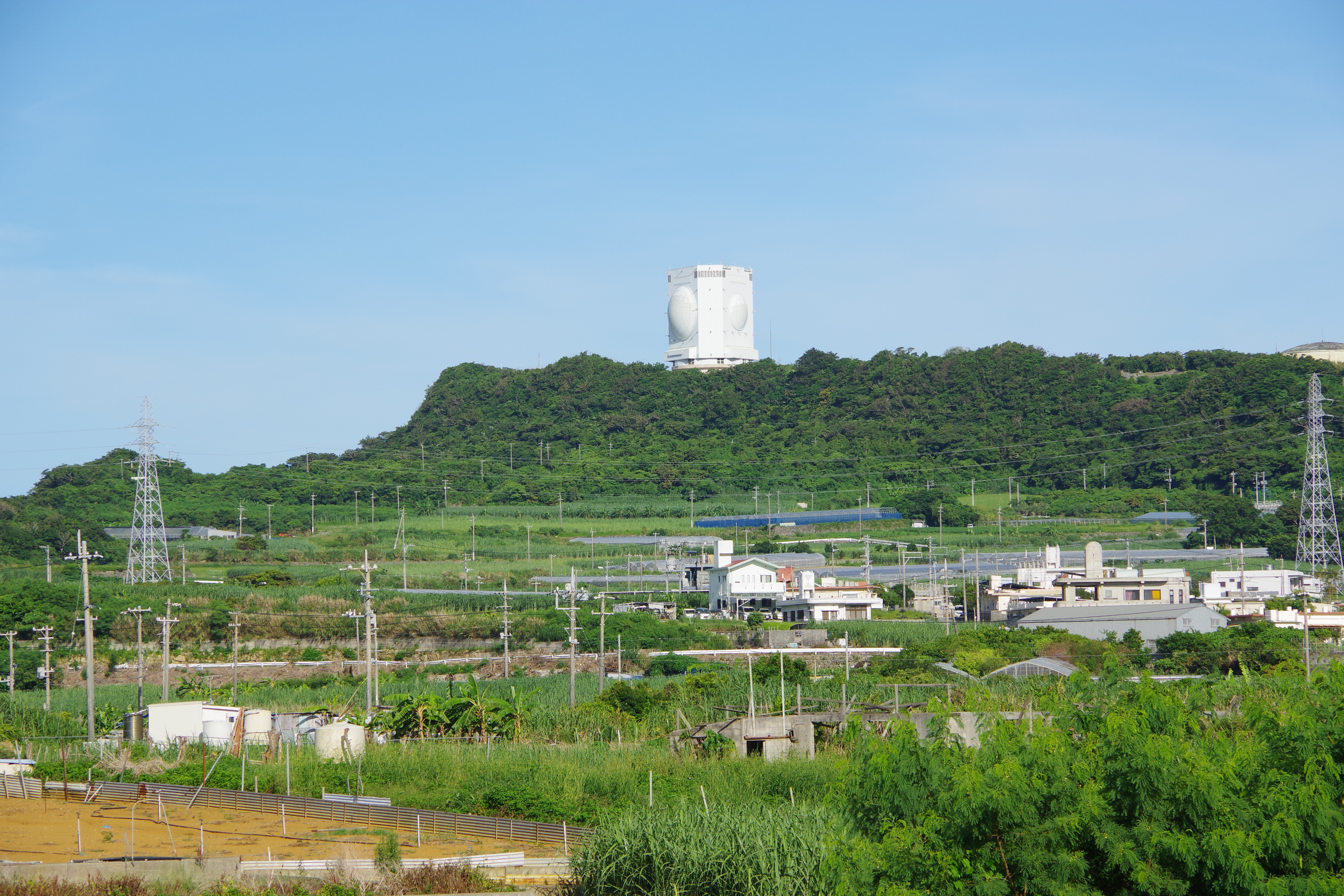 Mount Yoza at NW, Itoman, Okinawa Prefecture, Japan